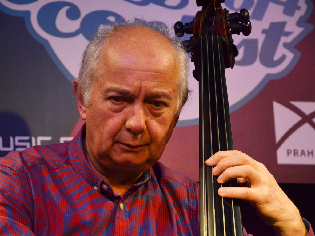 František Uhlíř, Czech jazz bass player and composer